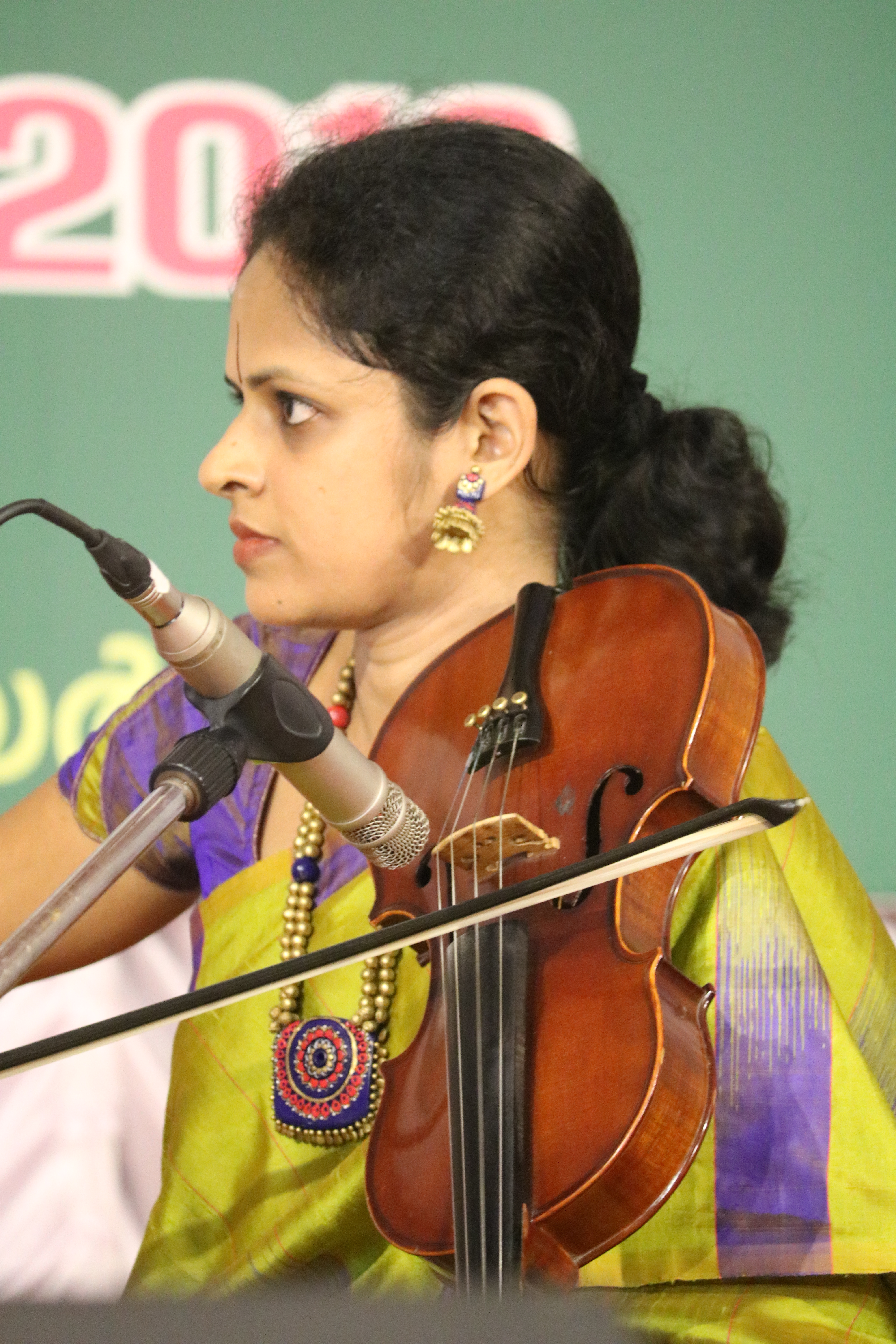 Akkarai S Sornalatha is a prodigious Indian classical (Carnatic) violinist and vocalist whose soulful music has captivated the hearts of music lovers worldwide.